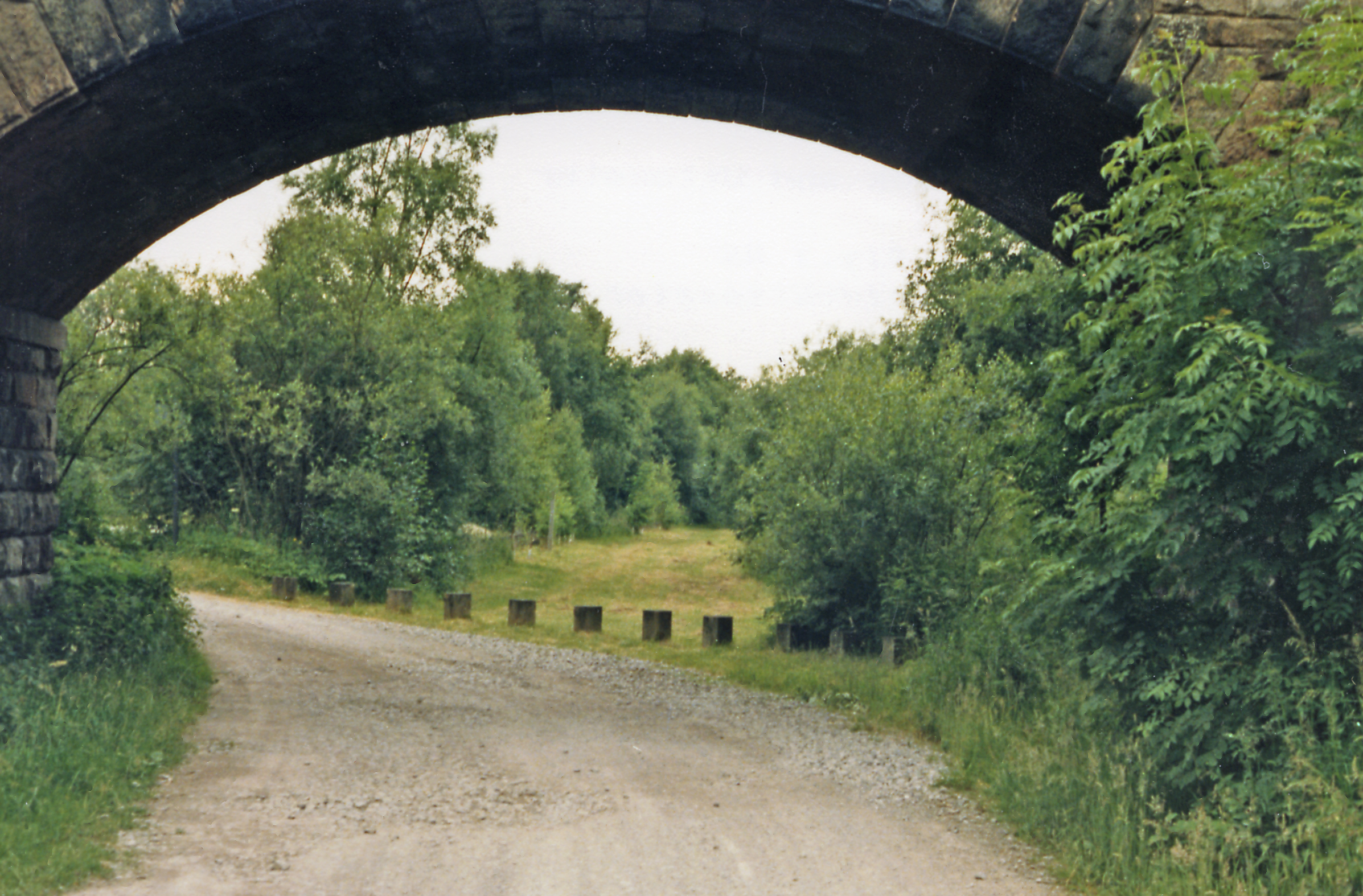 Site of Cliffe Park Halt. View SE, towards Leek and Uttoxeter: ex-North Stafford Railway Macclesfield - North Rode - Leek - Uttoxeter (Churnet Valley) line, closed 7/11/60 North Rode - Leek, 7/11/60. The station was called 'Rudyard Lake' until 1/4/26.